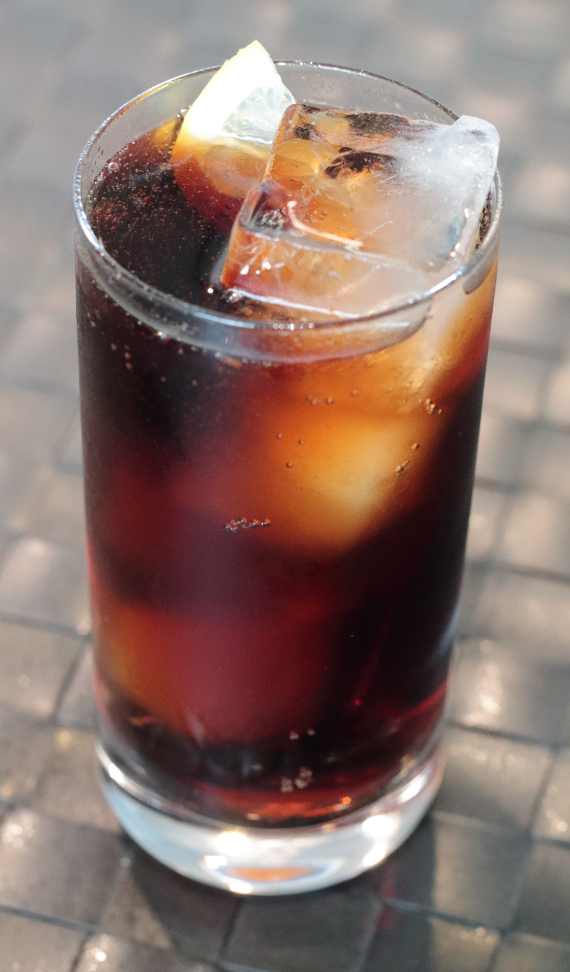 A drinking glass full of Cola.